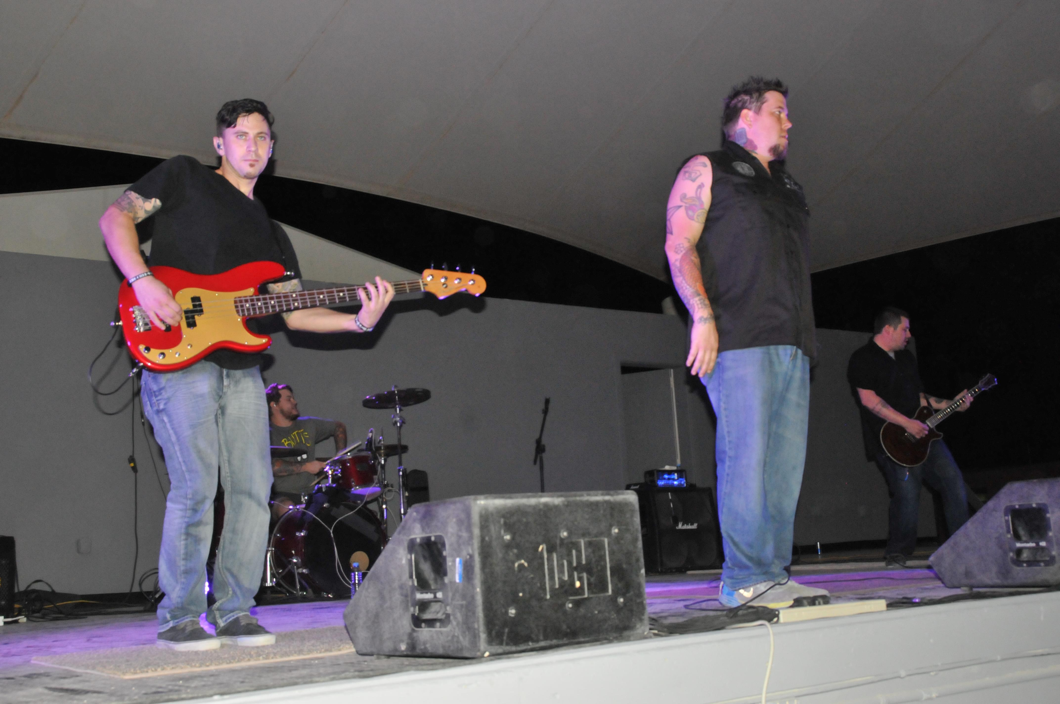 American Christian post-grunge band 12 Stones plays for service members at Al Udeid Air Base, Qatar Oct. 30. The 379th Expeditionary Force Support Squadron sponsored the band’s performance here. During the show Paul McCoy, the bands’ lead singer, jumps on a table encouraging the crowd of listeners to clap and make some noise. (U.S. Air Force photo by Tech. Sgt. Terrica Y. Jones/Released)